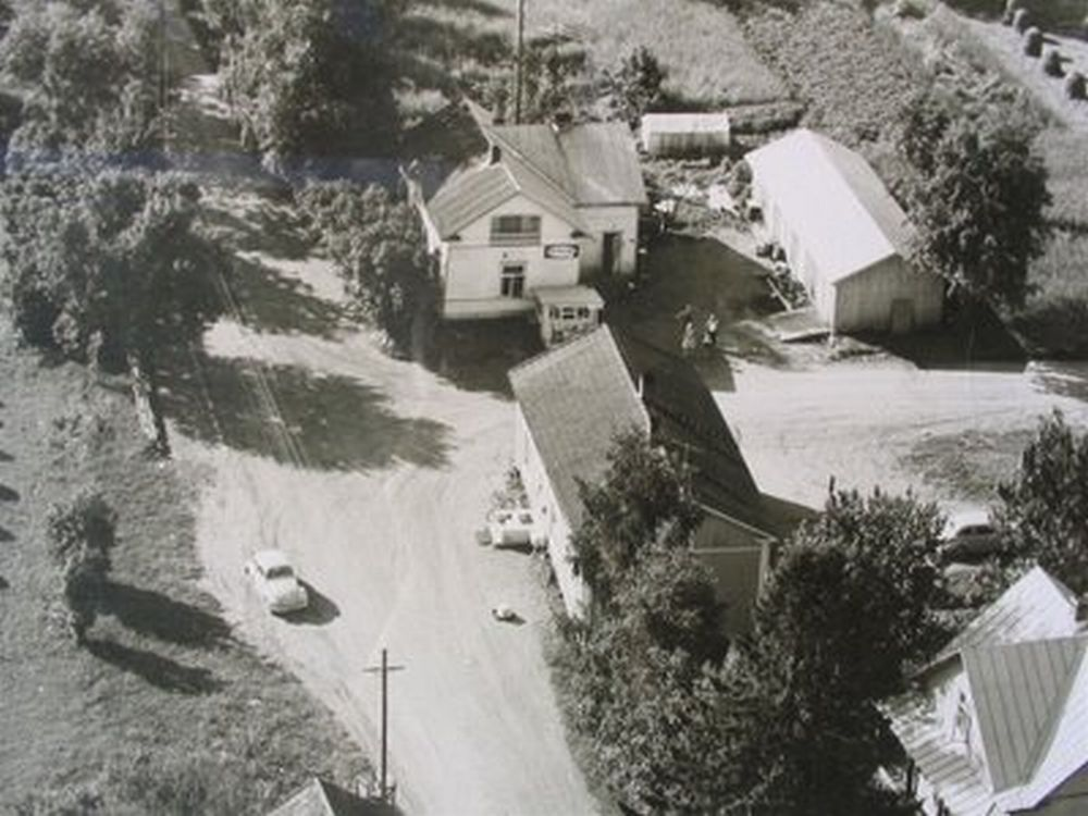 Högnabba Flygfoto Tidigt 60-Tal